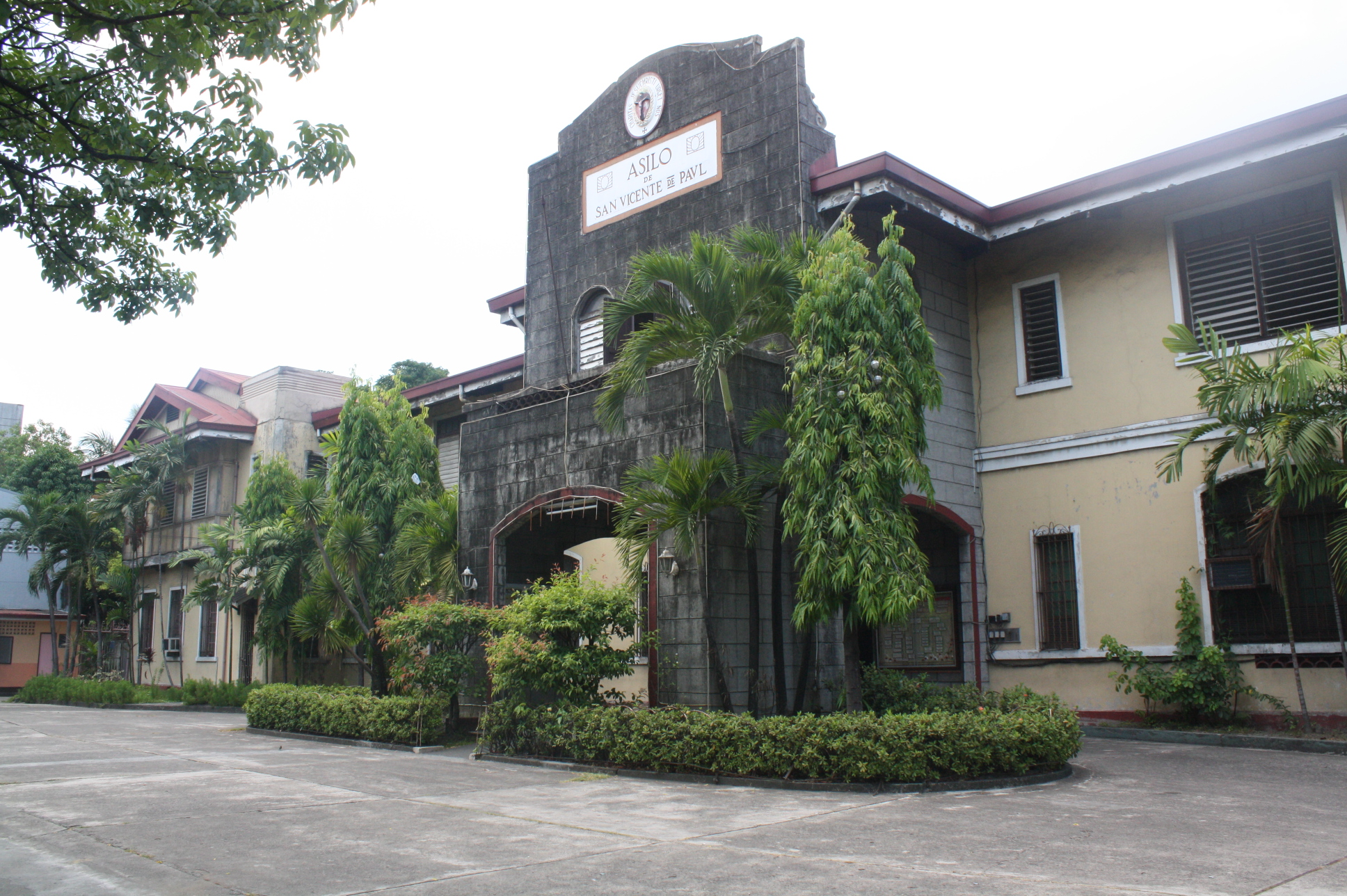 The facade of Asilo de San Vicente de Paul.